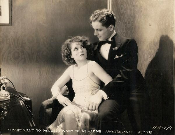 Clara Bow and Phillips Holmes in The Wild Party - publicity still